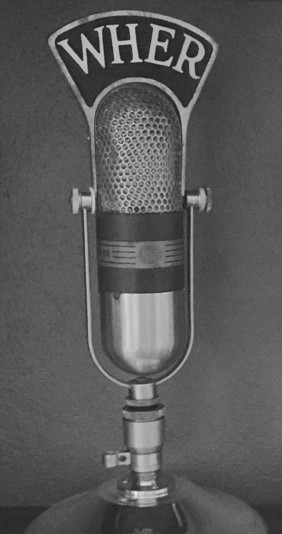 RCA microphone with WHER mic flag. From a private collection.